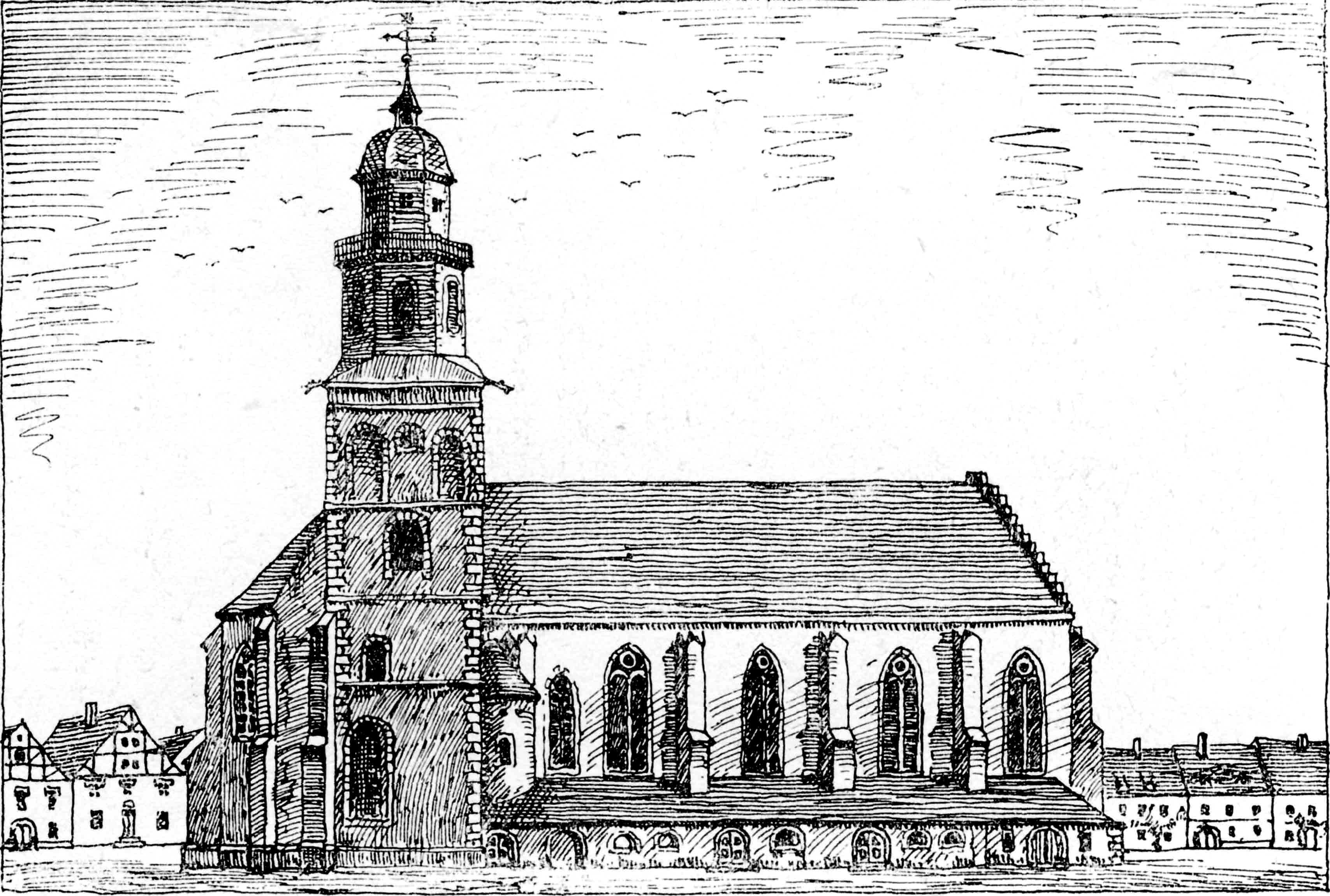 the old Marienkirche till 1744